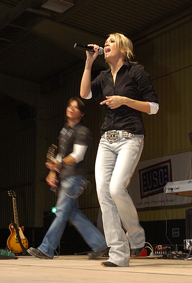 Country music recording artist Carrie Underwood performs a concert for service members at Contingency Operating Base Speicher, Tikrit, Iraq, Dec. 15, 2006. Underwood is in Iraq on an USO tour.